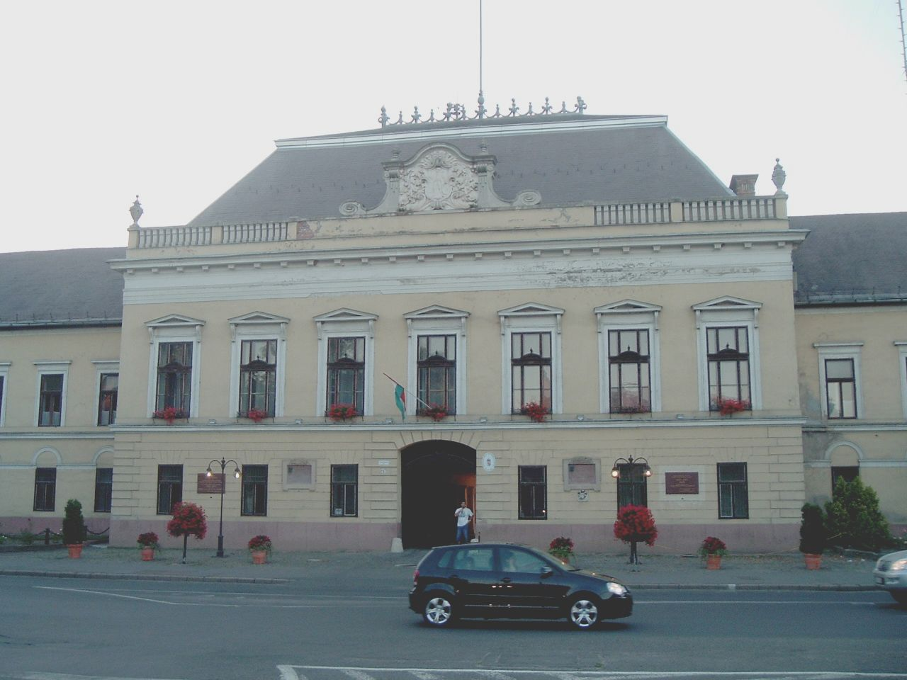 Balassagyarmat, Old County Hall This is a photo of a monument in Hungary. Identifier: 6510